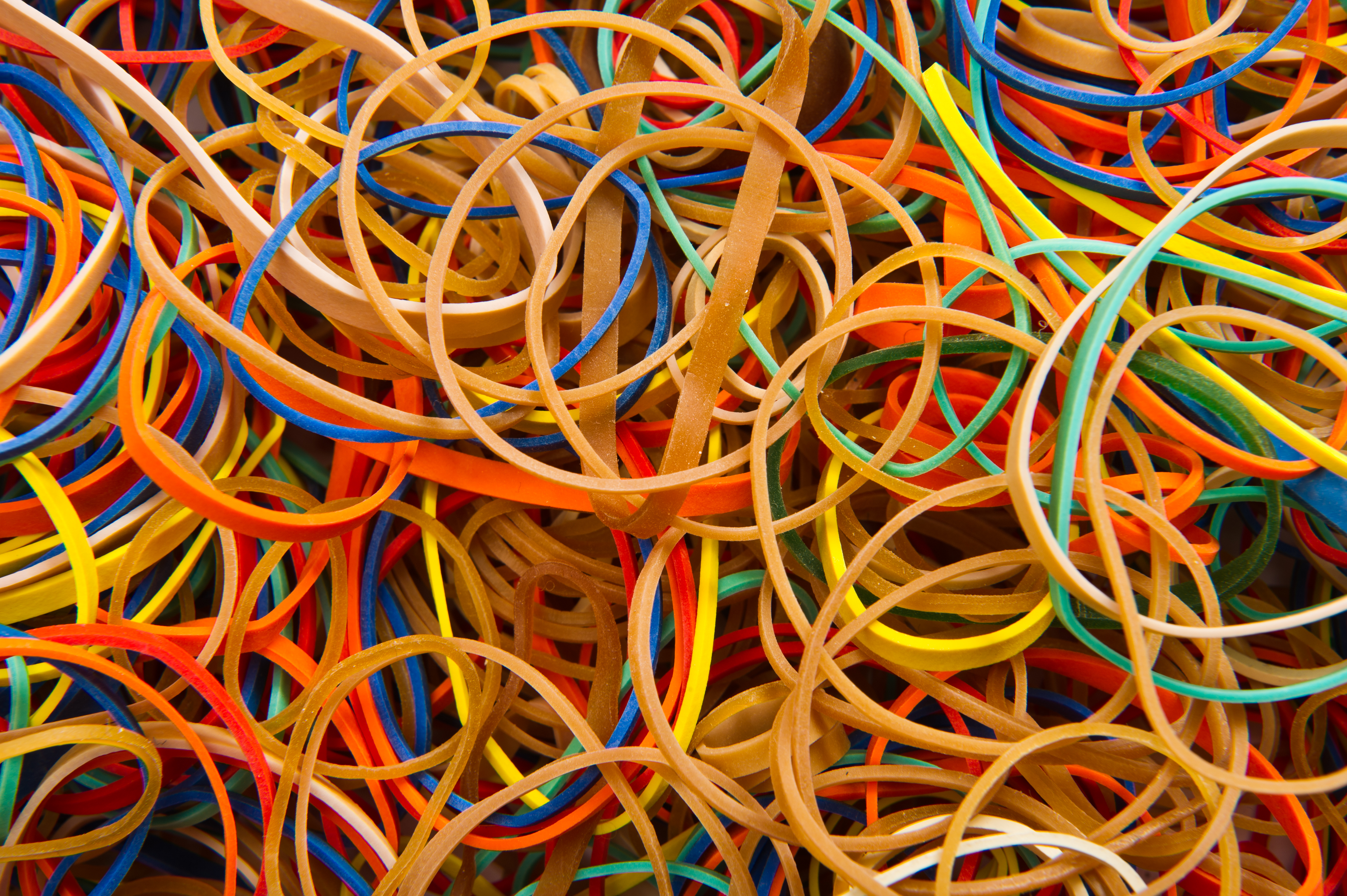 Rubber bands in different colors. Studio photo taken.